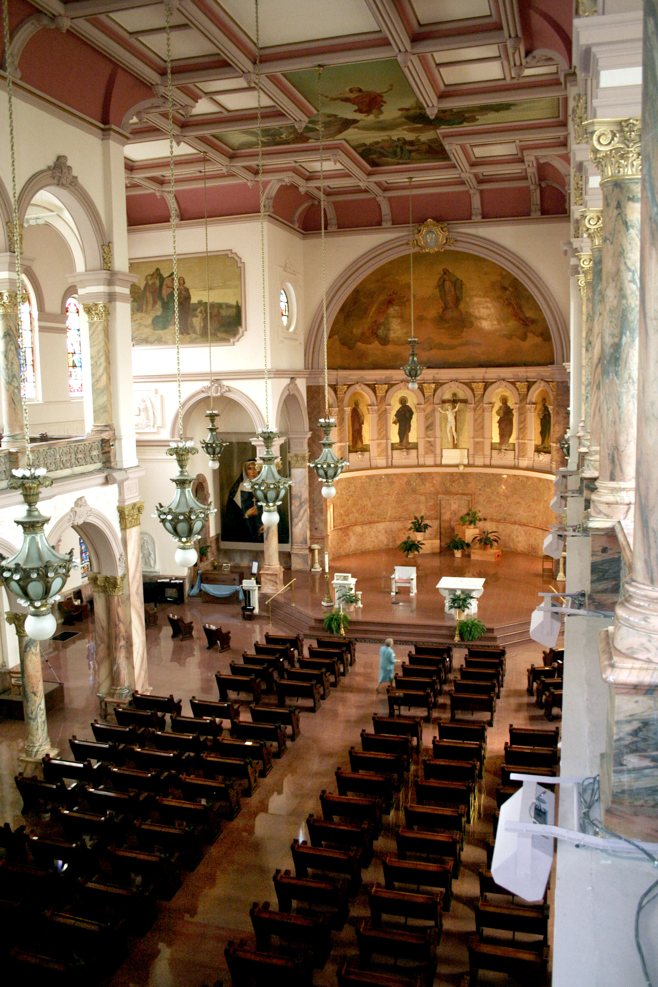 Interior of the Church of the Immaculate Conception. Taken from the west front balcony in September 2007.